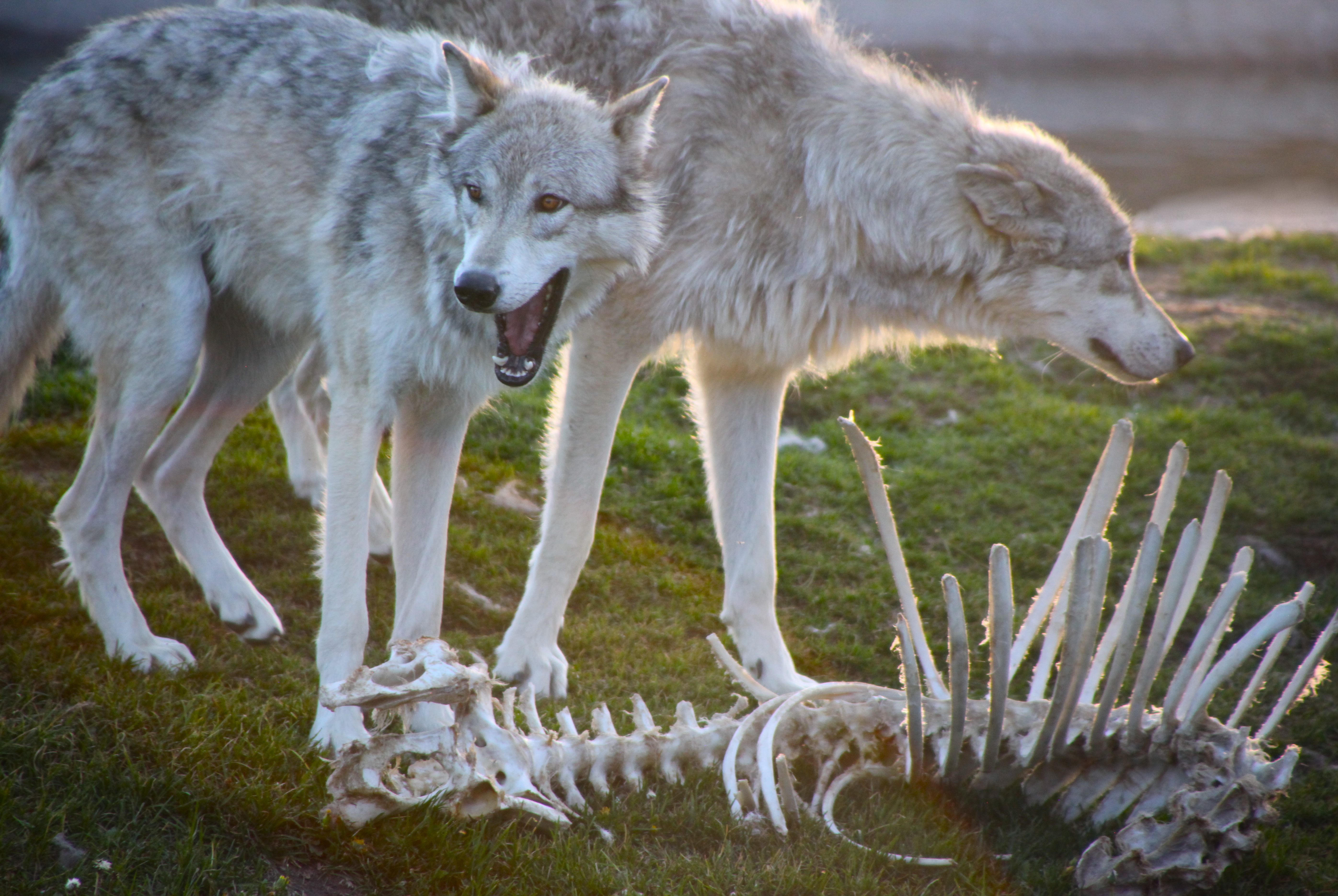 Gray Wolves (Canis lupus)